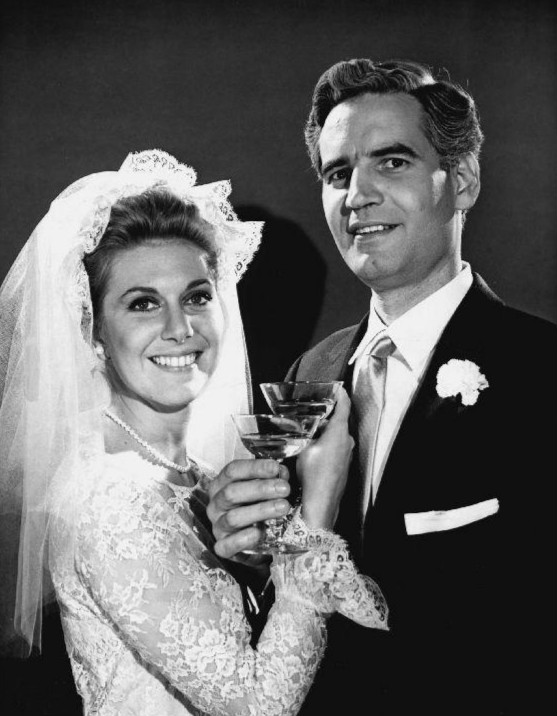 Photo of Susan Trustman as Pat Matthews and Michael M. Ryan as John Randolph from the daytime drama Another World. This is the wedding photo for the characters.